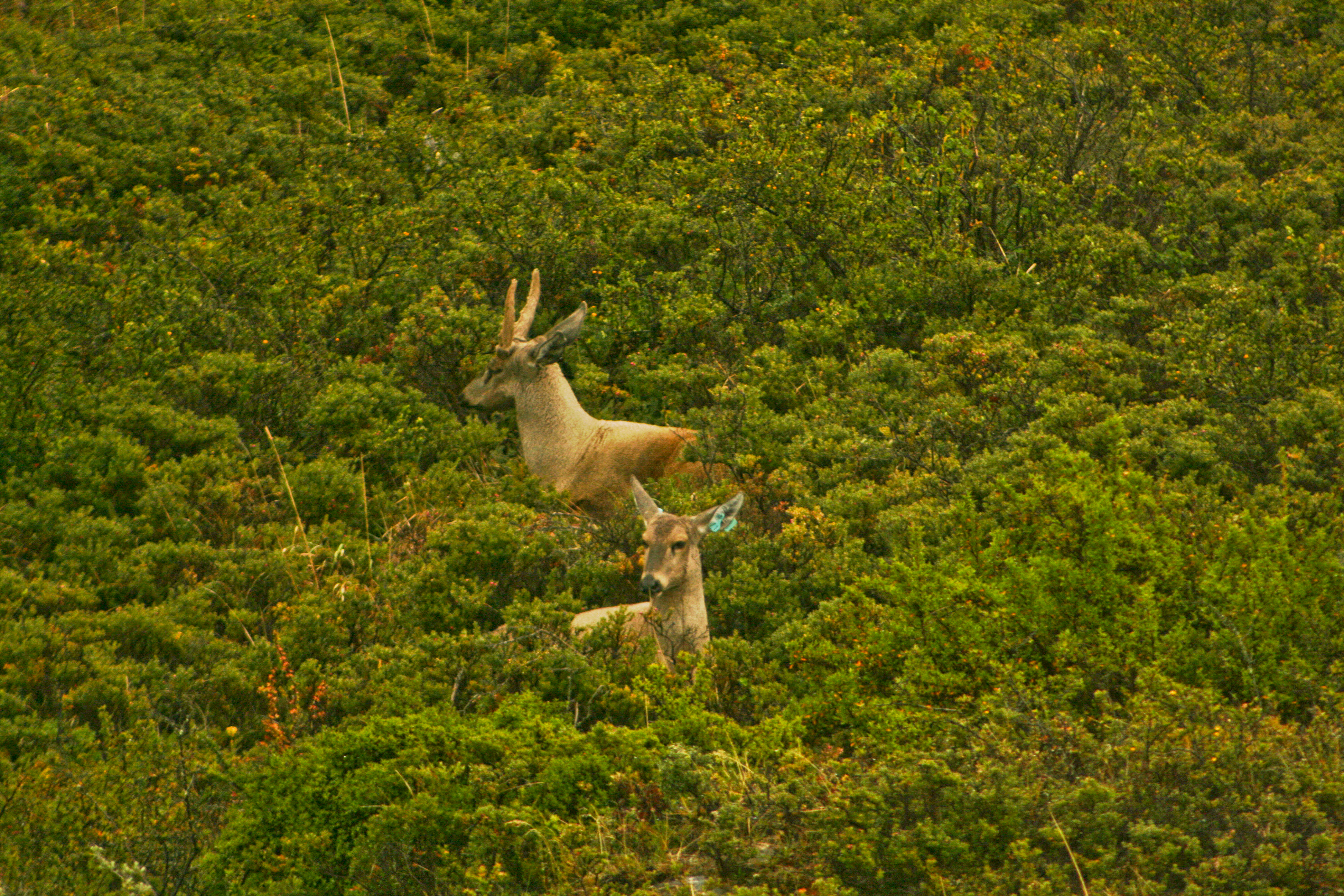 Hippocamelus bisulcus (south Andean deer), Torres del Paine National Park, Chile